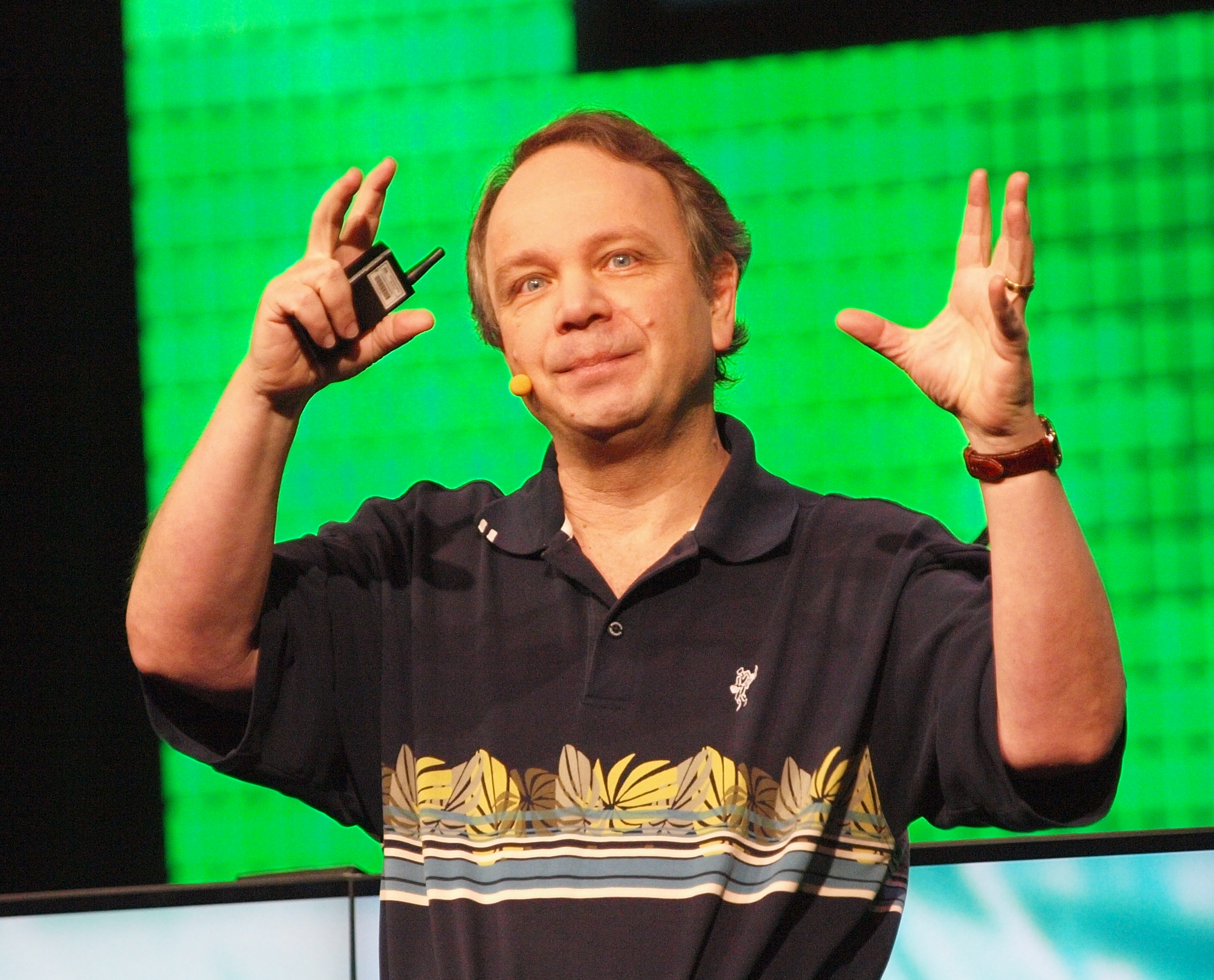 Sid Meier at the Game Developers Conference in 2010 (fourth day).